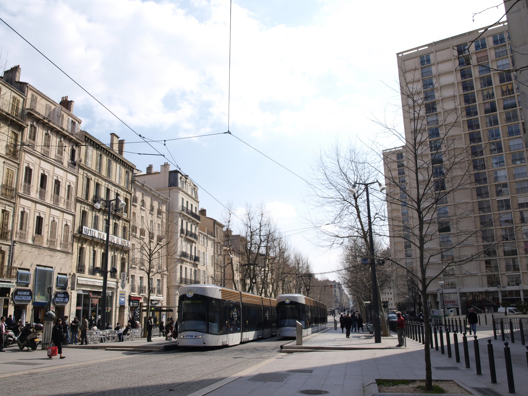 Bombardier Flexity Outlook trams in Marseille, France (Belsunce Alcazar stop)